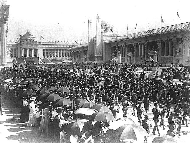 The Philippine Constabulary Band leads the Philippine Scouts during a march-in at the 1904 Louisiana Purchase Exposition in St. Louis, Missouri.